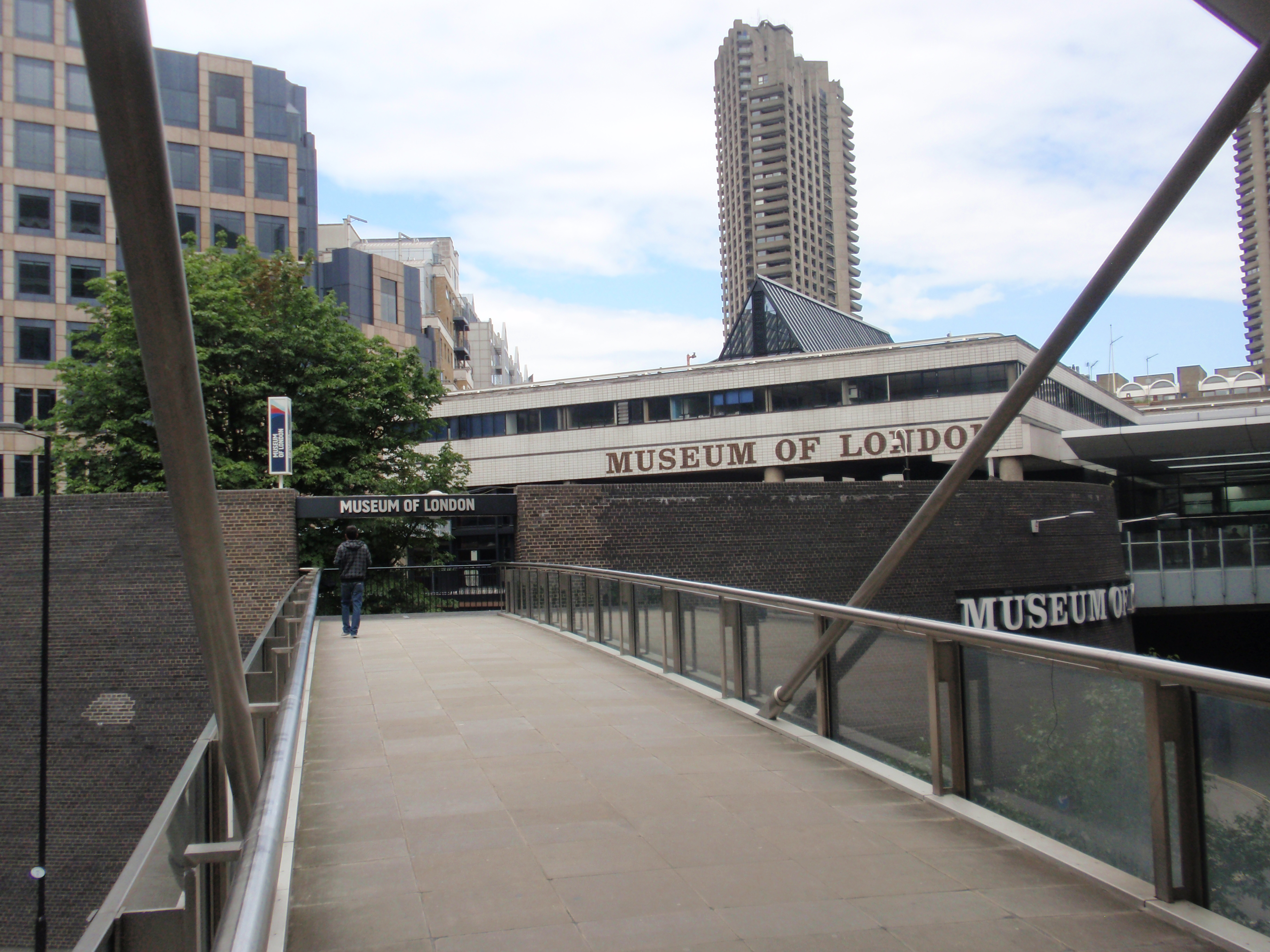 entrence of London Museum